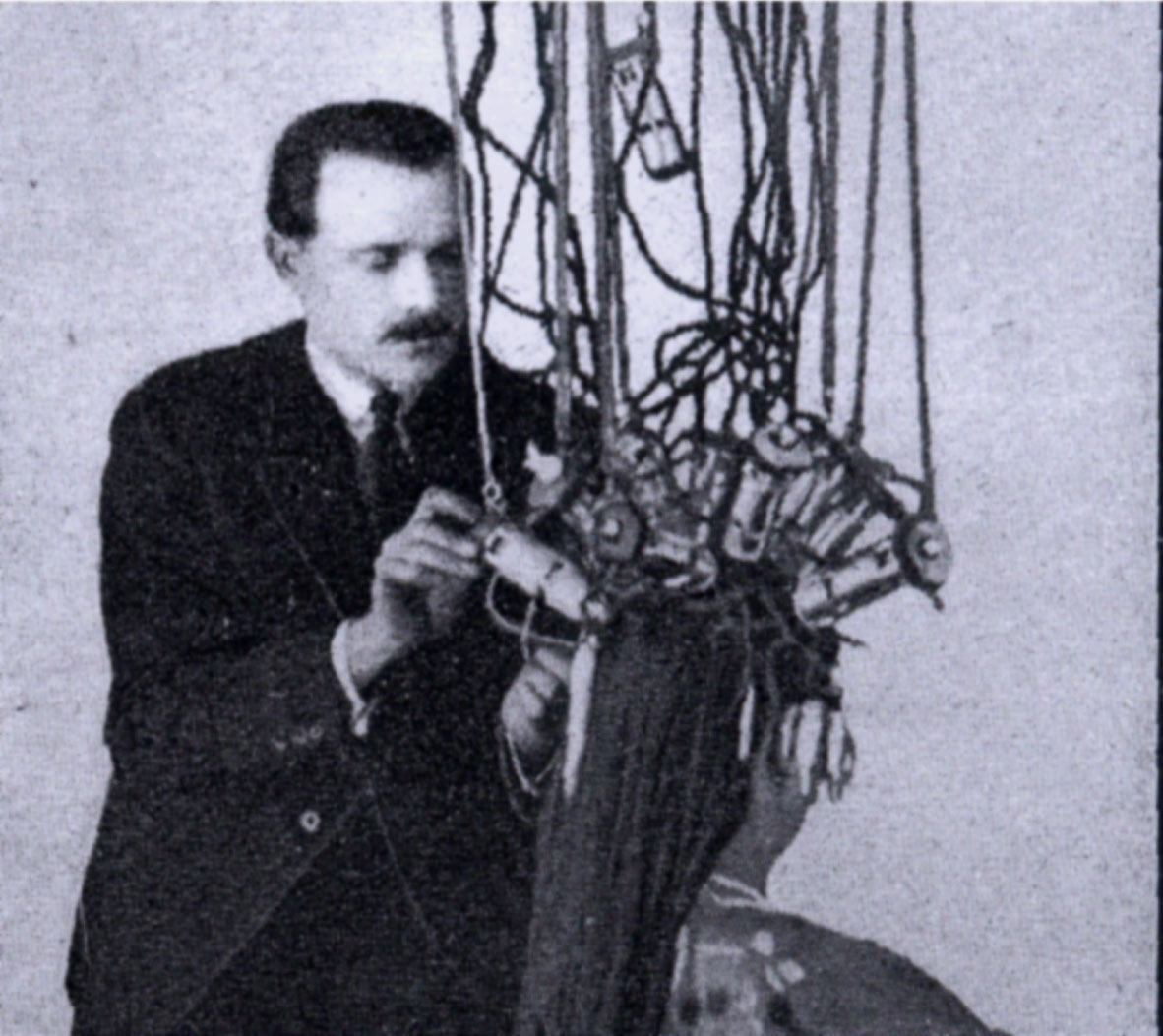 A rare picture of Eugene Suter working on an early version of permanent-waving machine deisgned by Isidoro Calvete